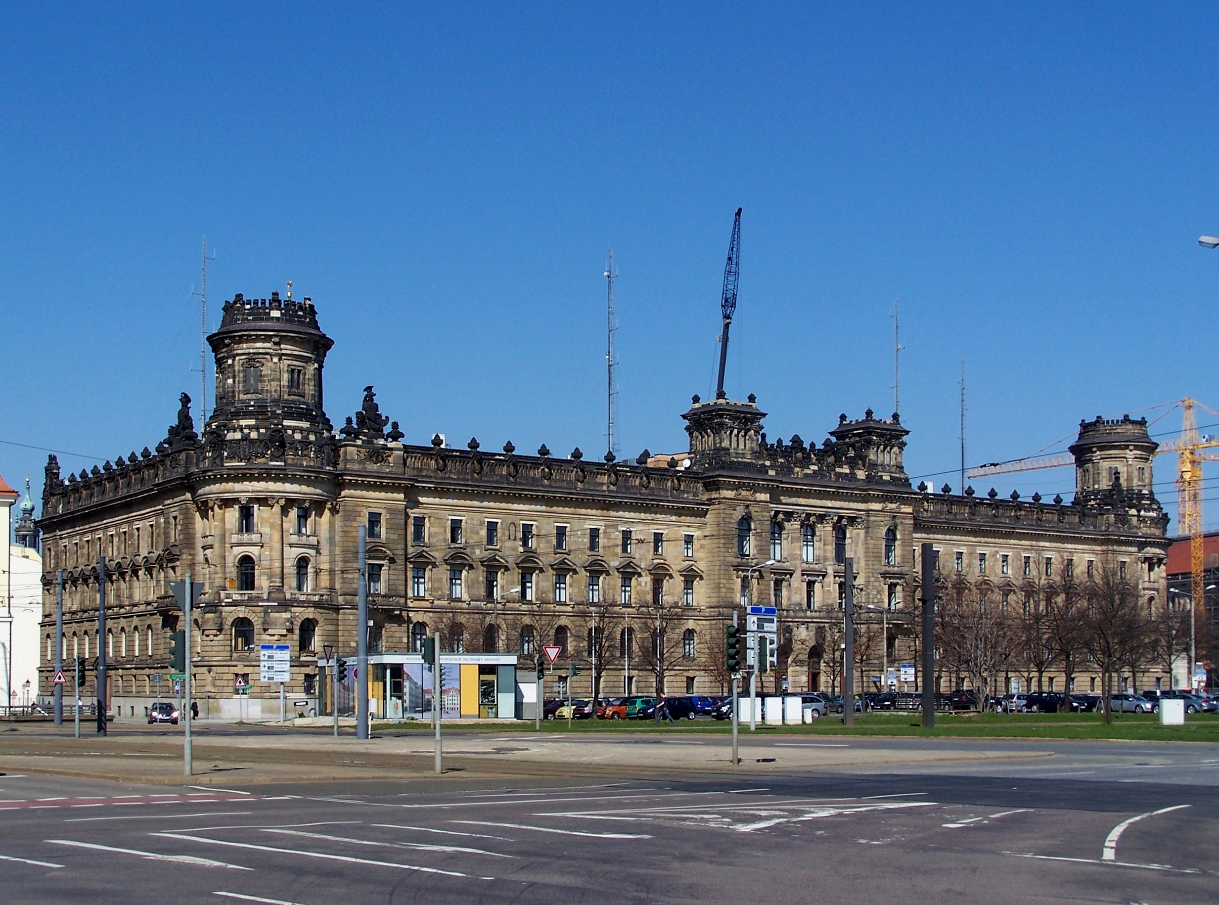 Police headquarters at Pirnaischer Platz in Dresden